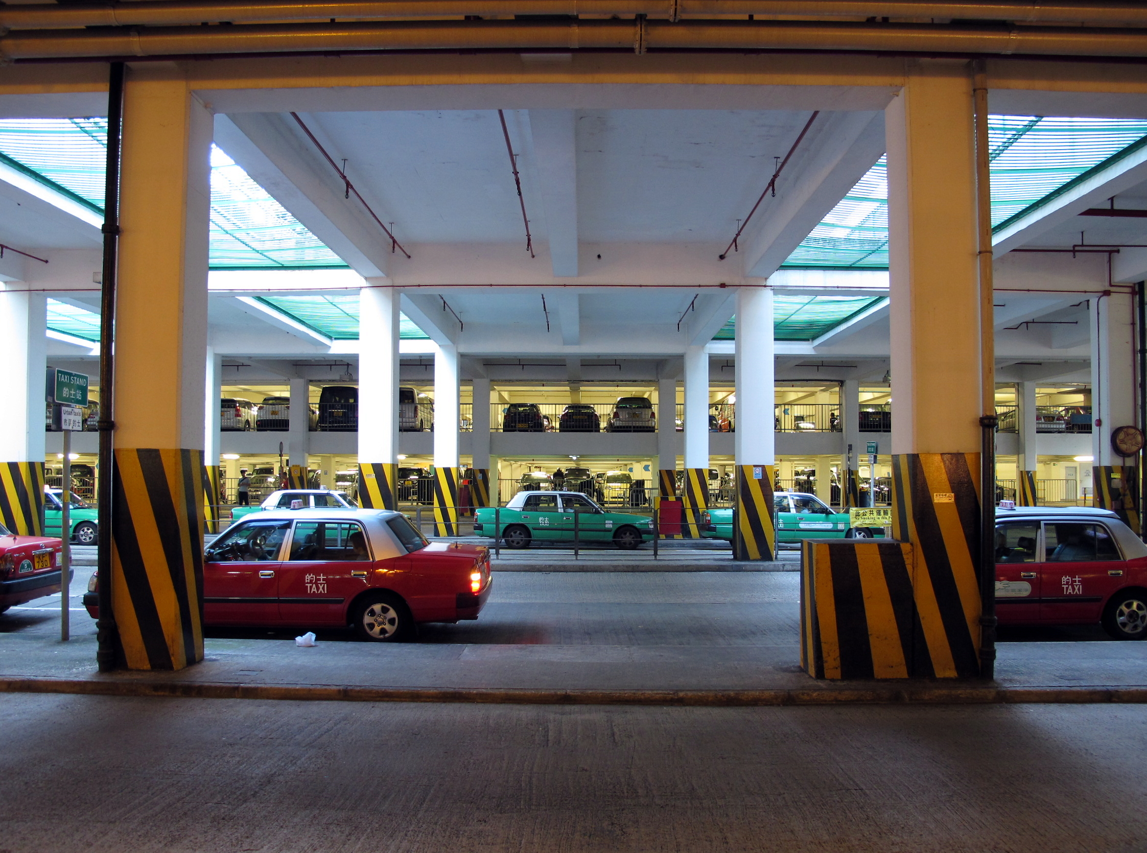 Kwong Fok Estate Taxi Stands